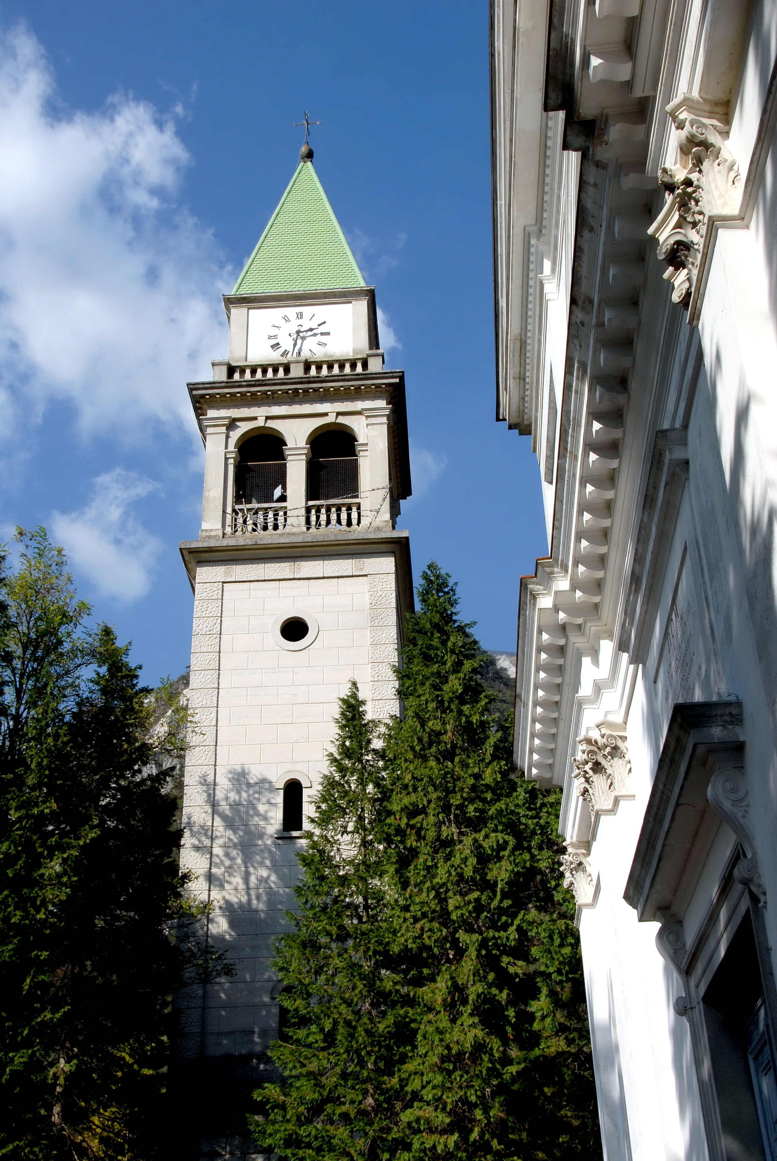 Parish church San Nicolo in the community Amaro, region Friuli Venezia-Giulia, Italy